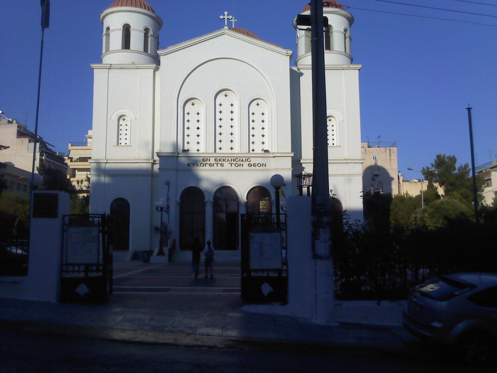 Agia Sofia Peiraia